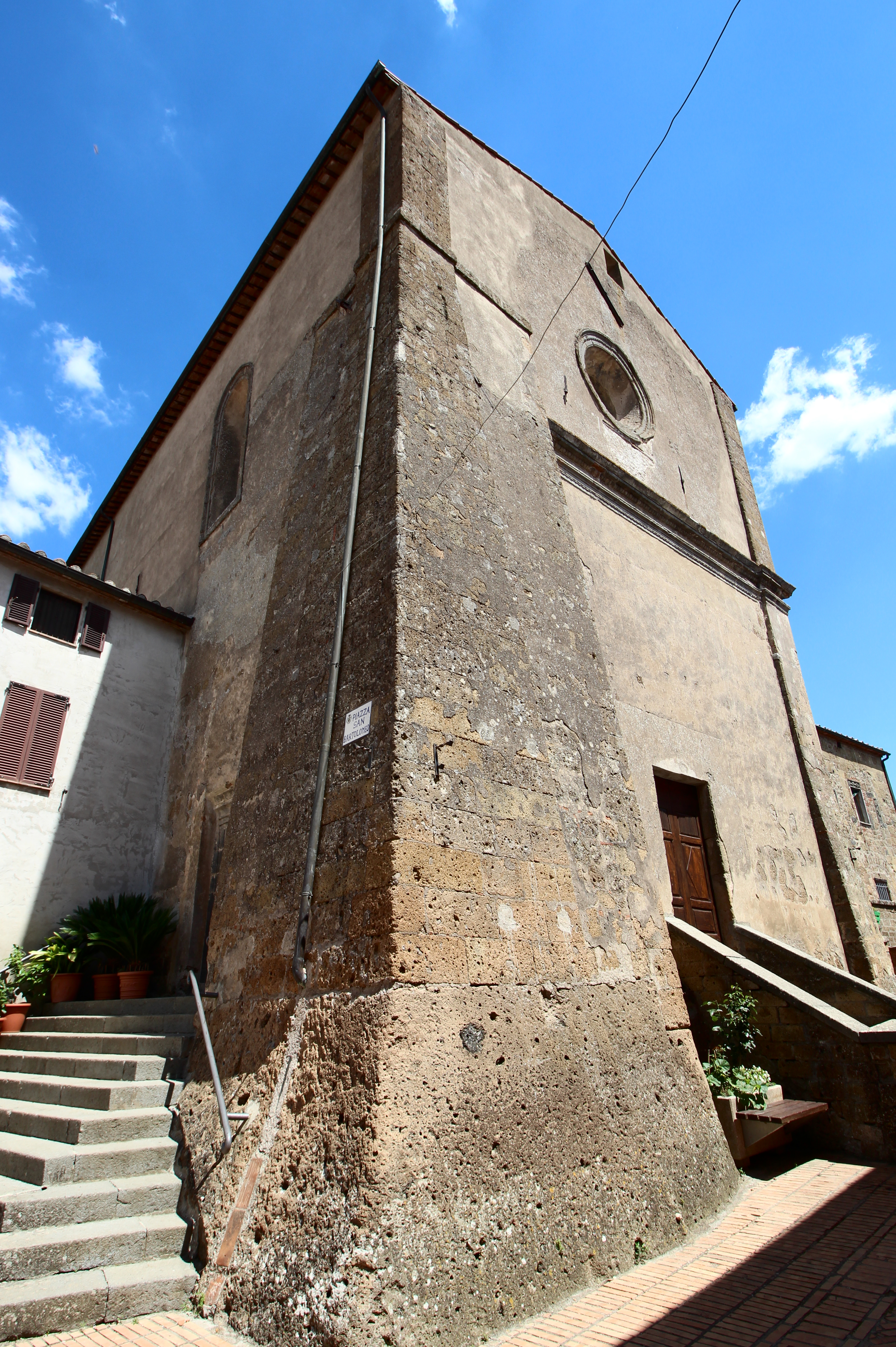 Church San Bartolomeo, Castell'Otteri, hamlet of Sorano, Province of Grosseto, Tuscany, Italy